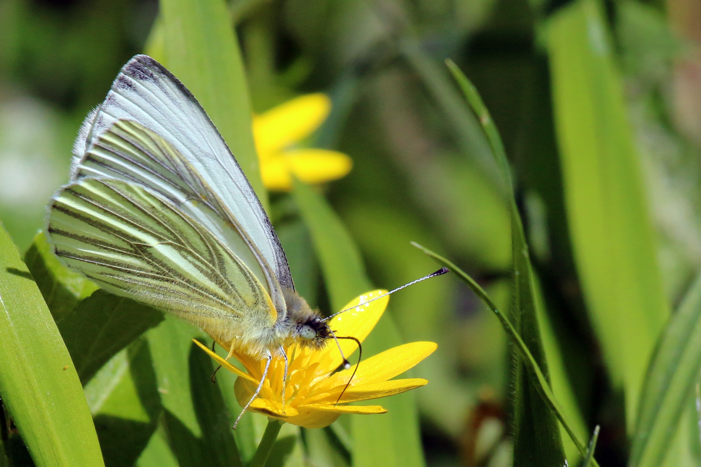 Green-veined white butterfly (Pieris napi), showing the underside of the wings, Wytham Woods, Oxfordshire